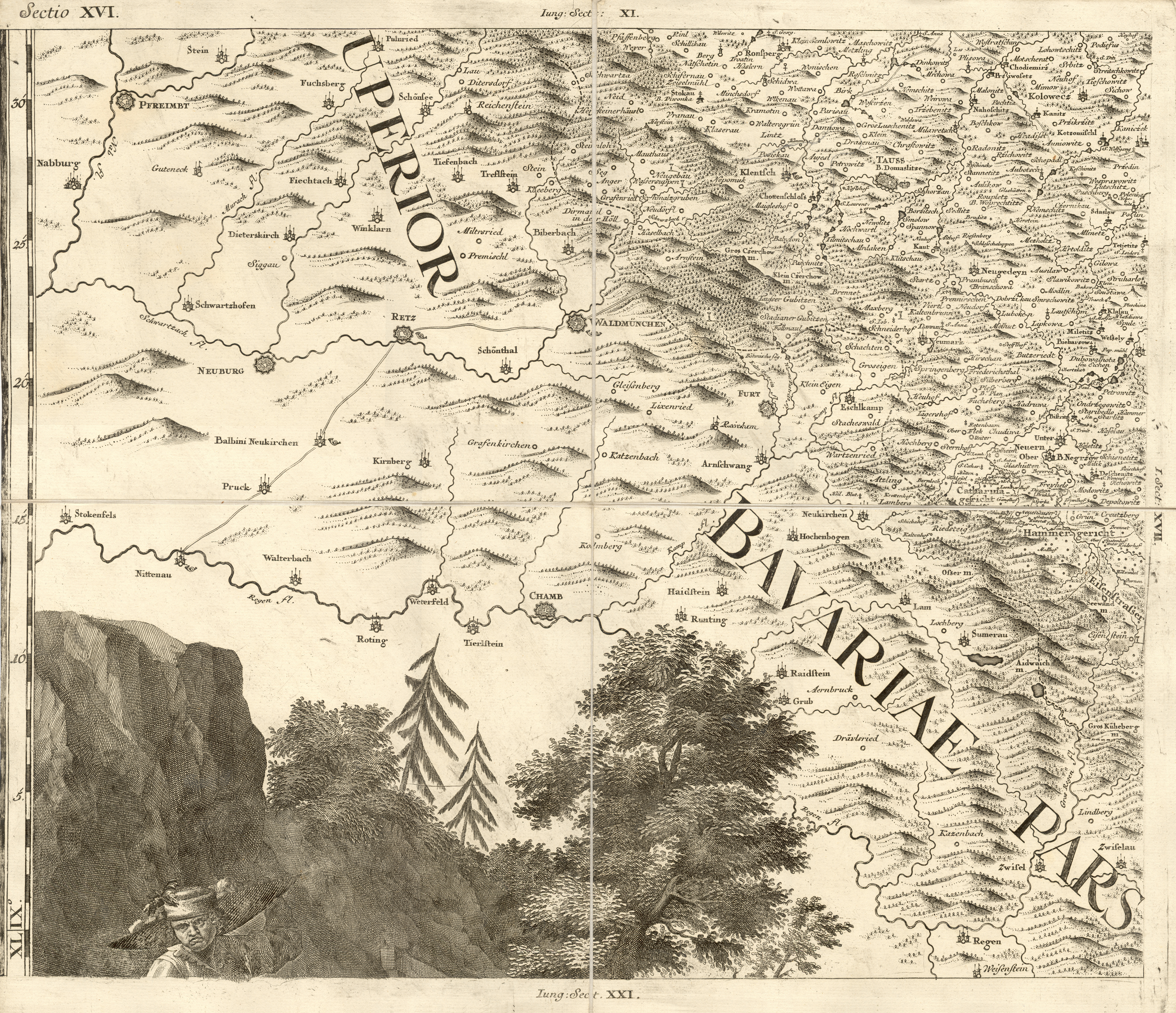 Müller's map of Bohemia.